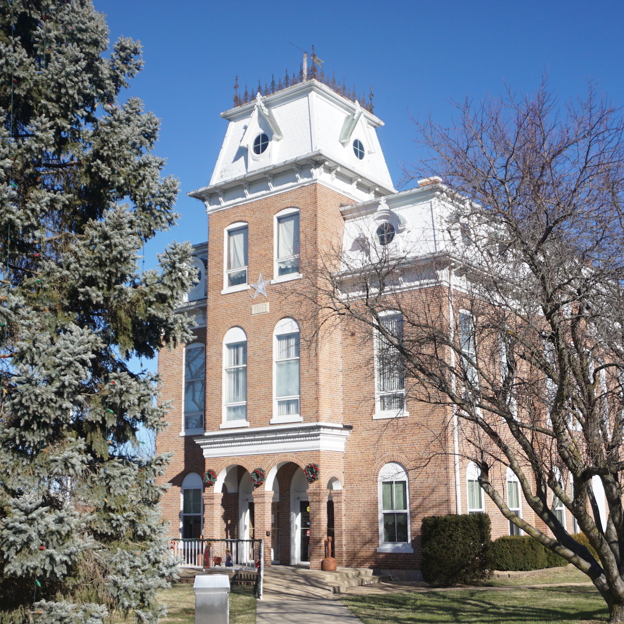 Courthouse built 1870. It is on the National Register of Historic Places.